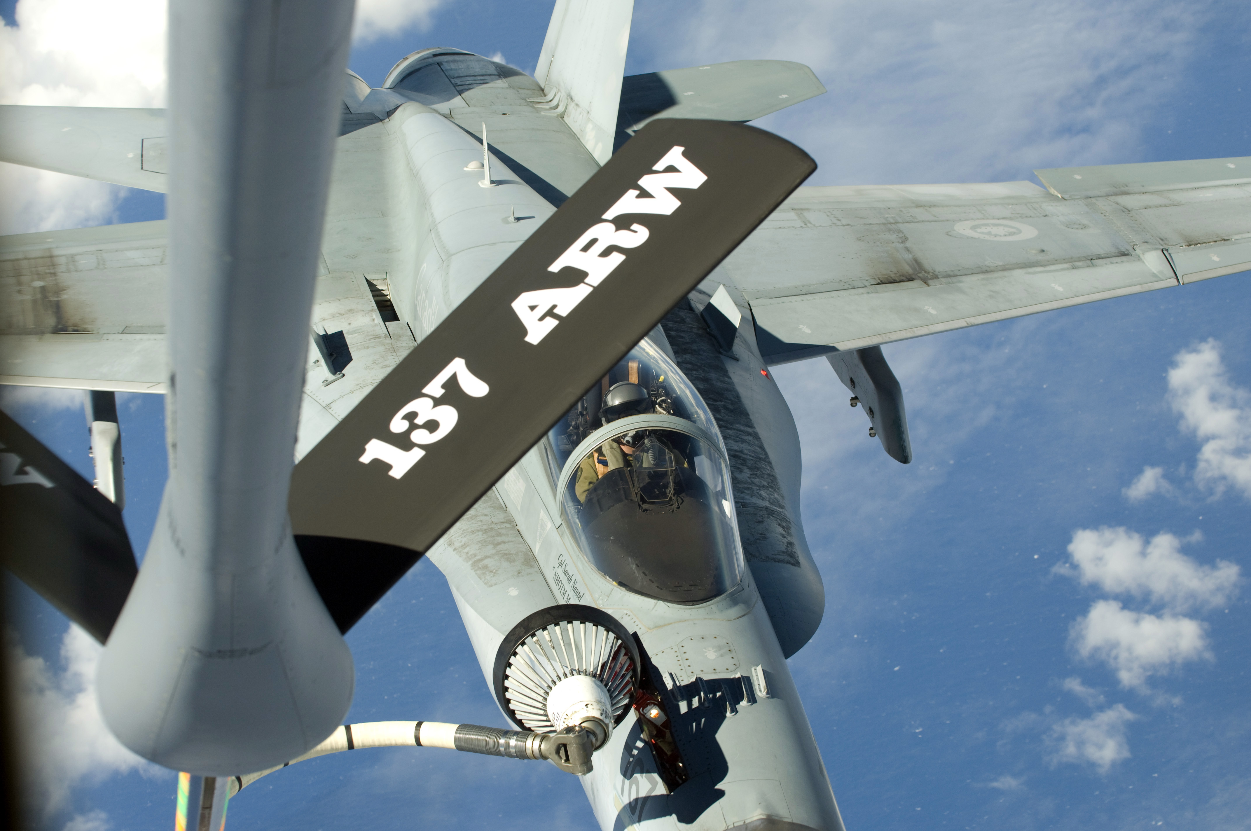 PACIFIC OCEAN (July 23, 2008) A Canadian Air Force CF-18 Hornet from 409 Tactical Fighter Squadron conducts an aerial refueling with an Air Force KC-135 Stratotanker as part of Rim of the Pacific (RIMPAC) 2008. RIMPAC is the world's largest multinational exercise and is scheduled biennially by the U.S. Pacific Fleet. Participants include the United States, Australia, Chile, Canada, Japan, the Netherlands, Peru, South Korea, Singapore and the United Kingdom. (U.S. Navy photo by Mass Communication Specialist 1st Class Daniel N. Woods/Released)